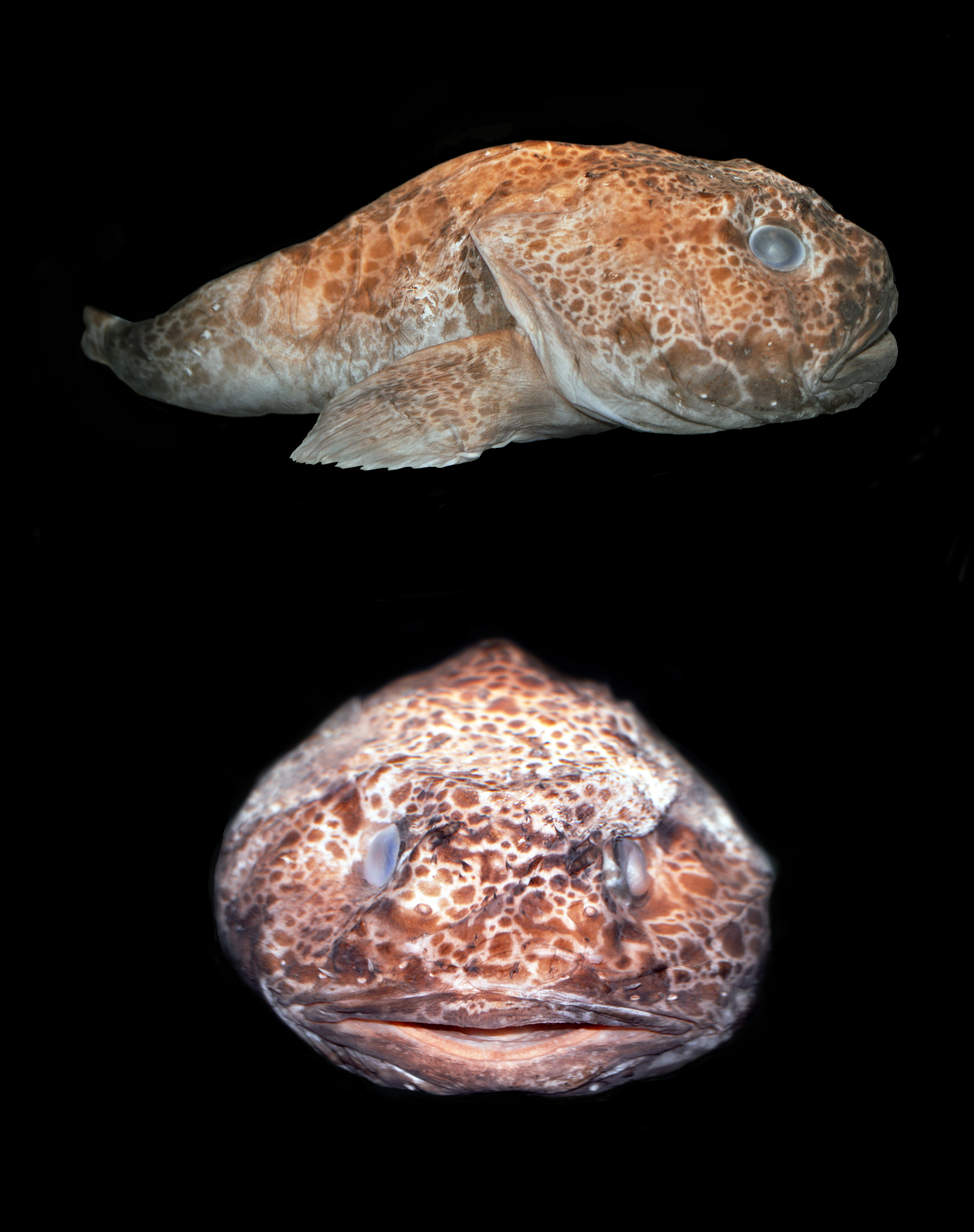 Ambophthalmos angustus in formaldehyde taken at Océanopolis (France)